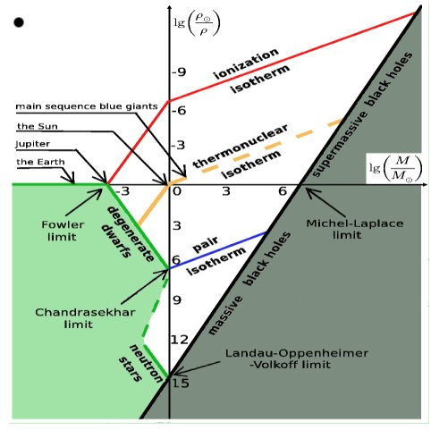 This file is a logarithmic plot of Mass against density that I created for application to the anthropic principle